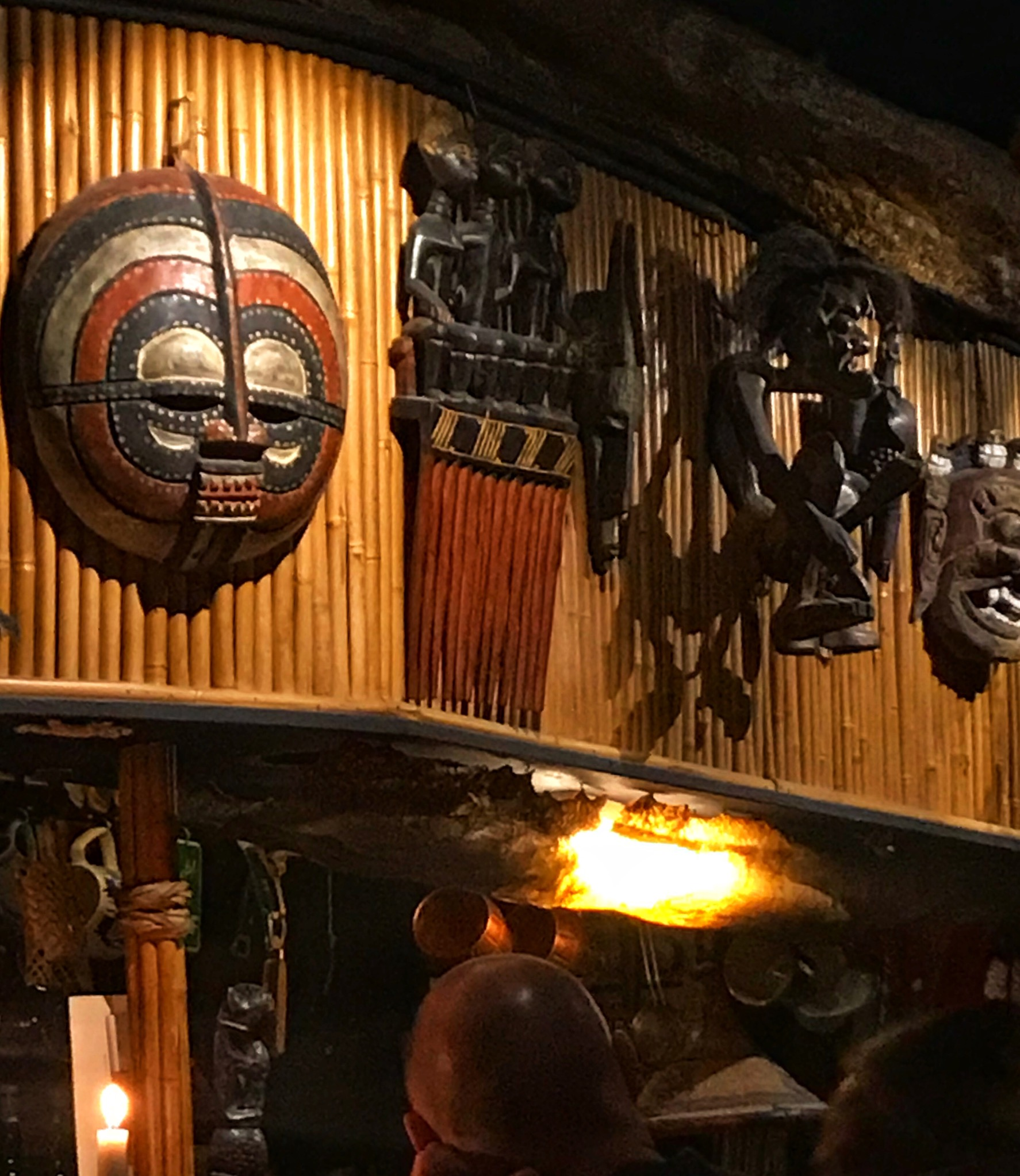 Interior of Galatheakroen in Copenhagen